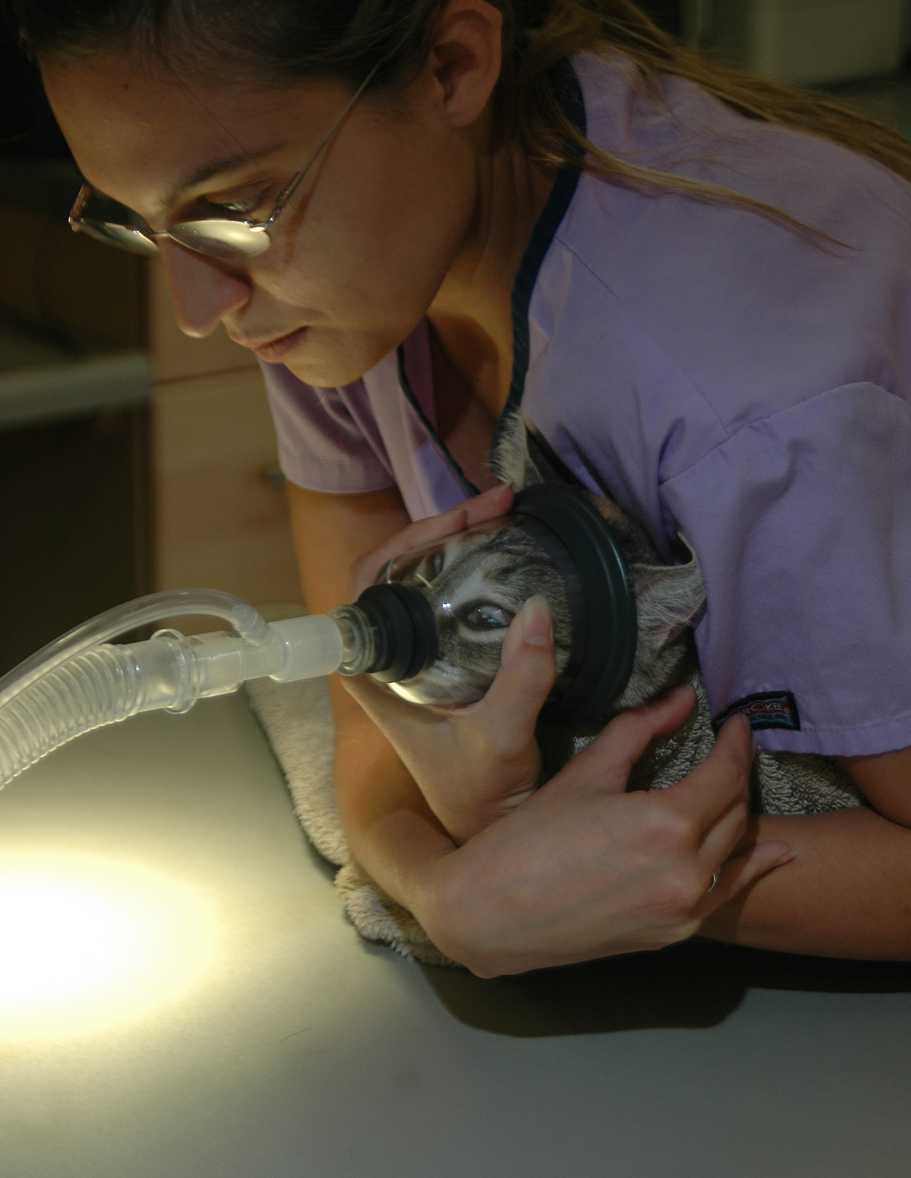 Cat gassed down/masked down with anesthesia for spay neuter surgery